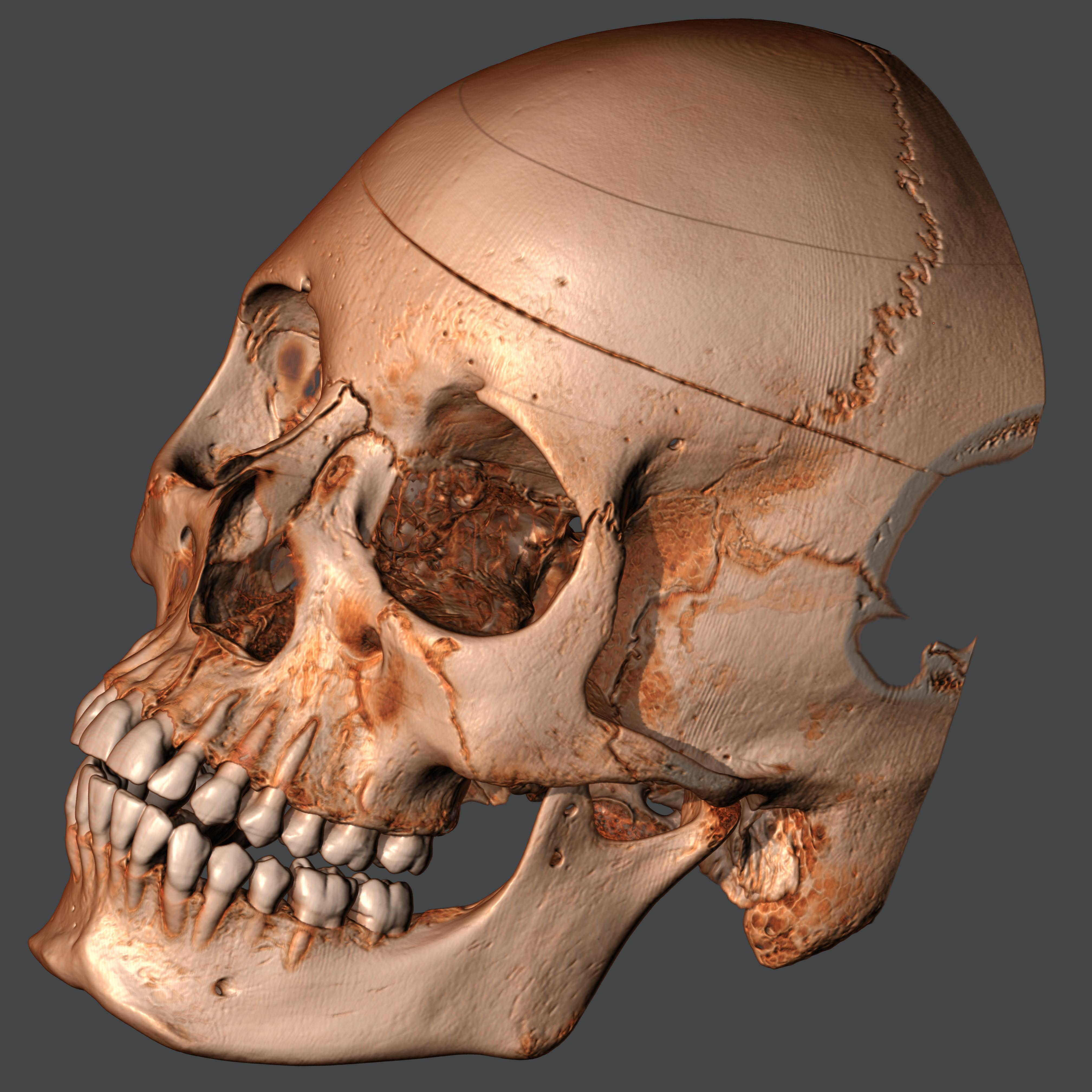 Example of volumetric ray casting